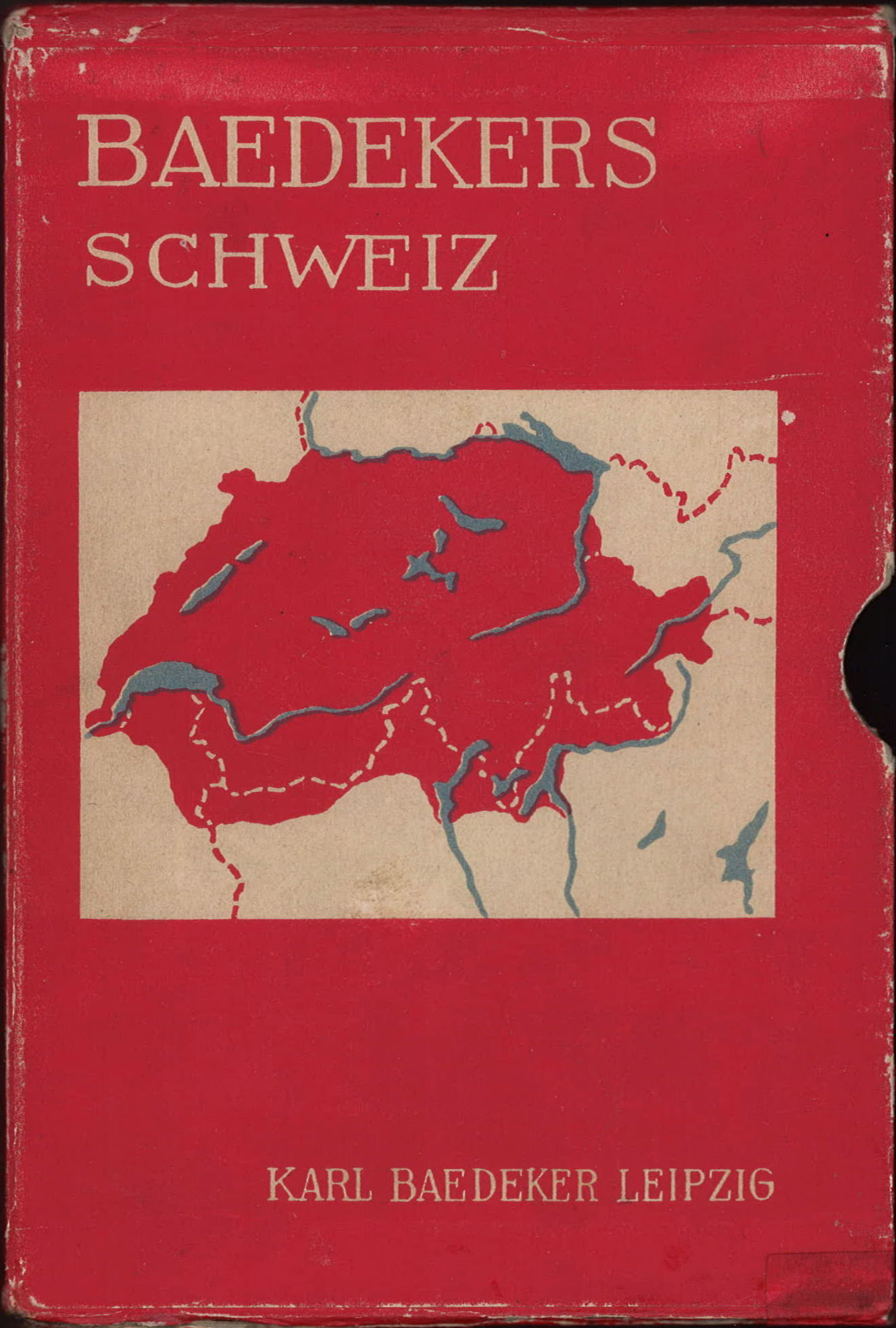 Baedeker D 327, Schweiz 1930, 38th edition in 4 volumes and slipcase, Slipcase's frontcover